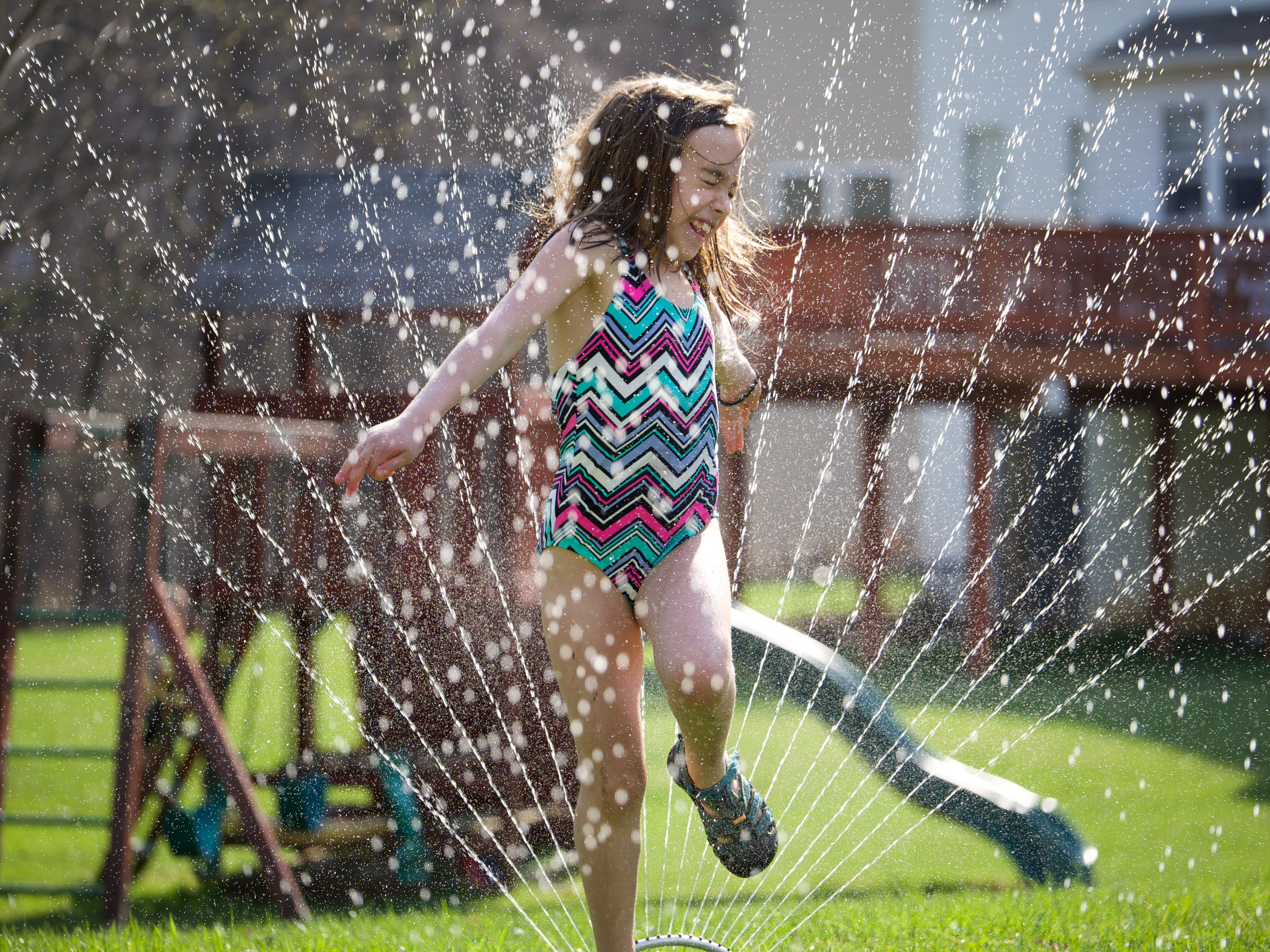 Girl having fun with a sprinkler